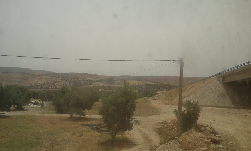 Building of A6 expressway between Taorirt and Fes